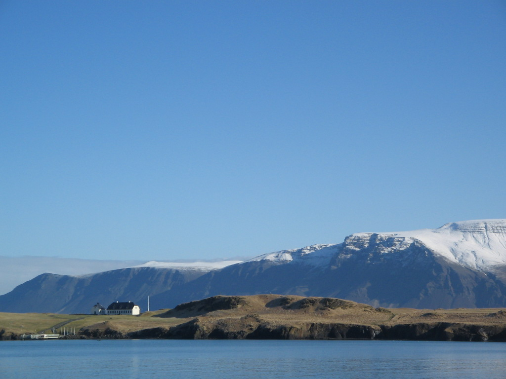 Looking towards the island Viðey and mount Esja from Reykjavík, Iceland.